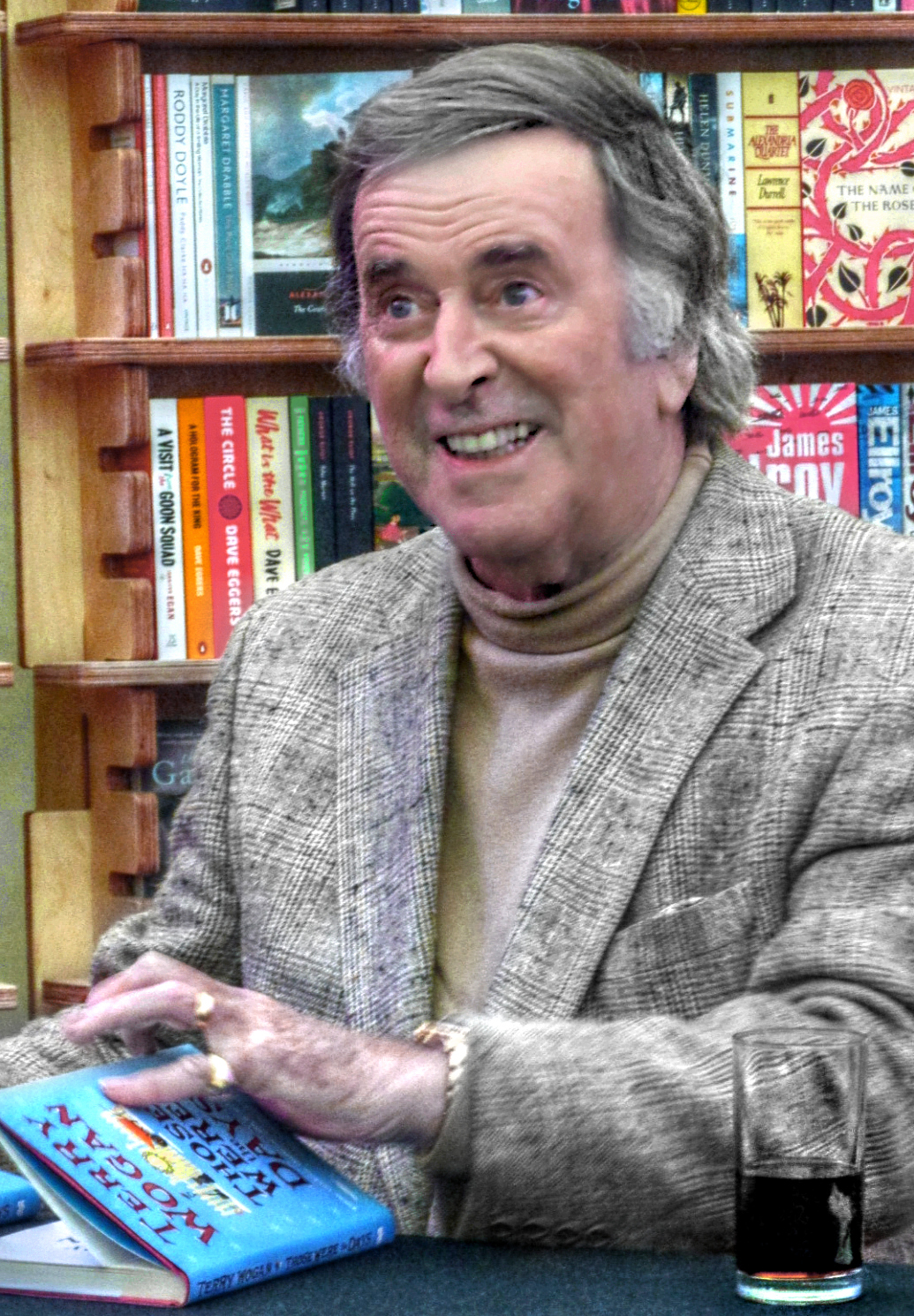 ...pause for thought with Wogan spotted at The Cheltenham Literature Festival ...